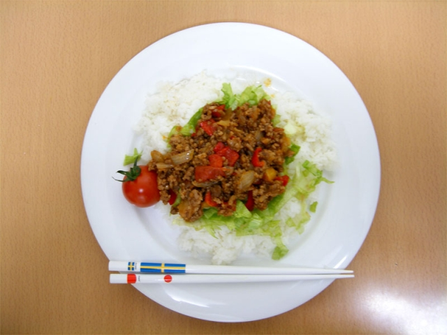 A picture of the Okinawan dish "taco rice", as cooked by myself. It's not the best picture to depict the dish (I didn't put the salsa sauce on yet!) but there are no other on the site at this moment.